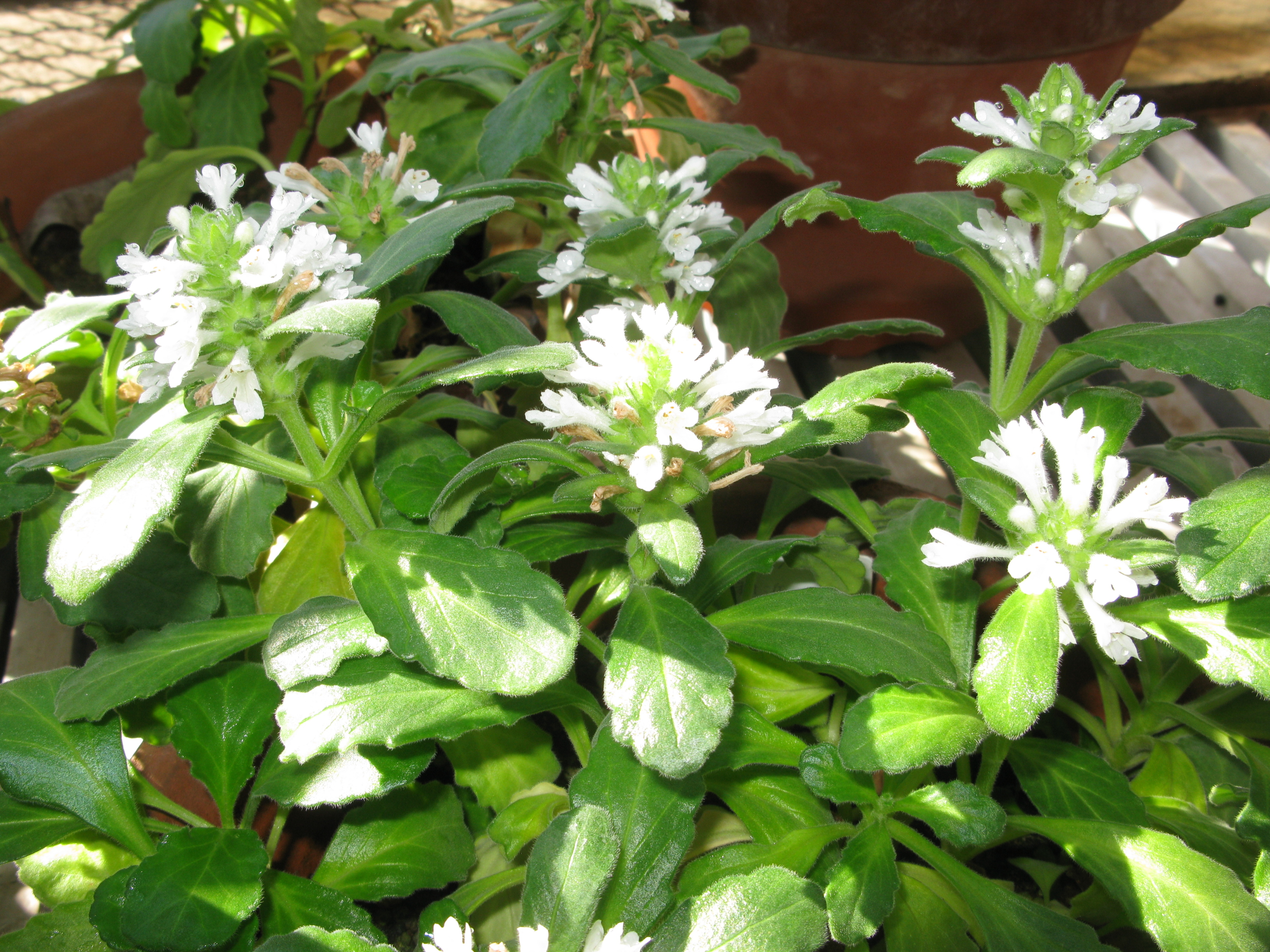 Ajuga boninsimae, Koishikawa, Botanical Gardens, the University of Tokyo, Japan